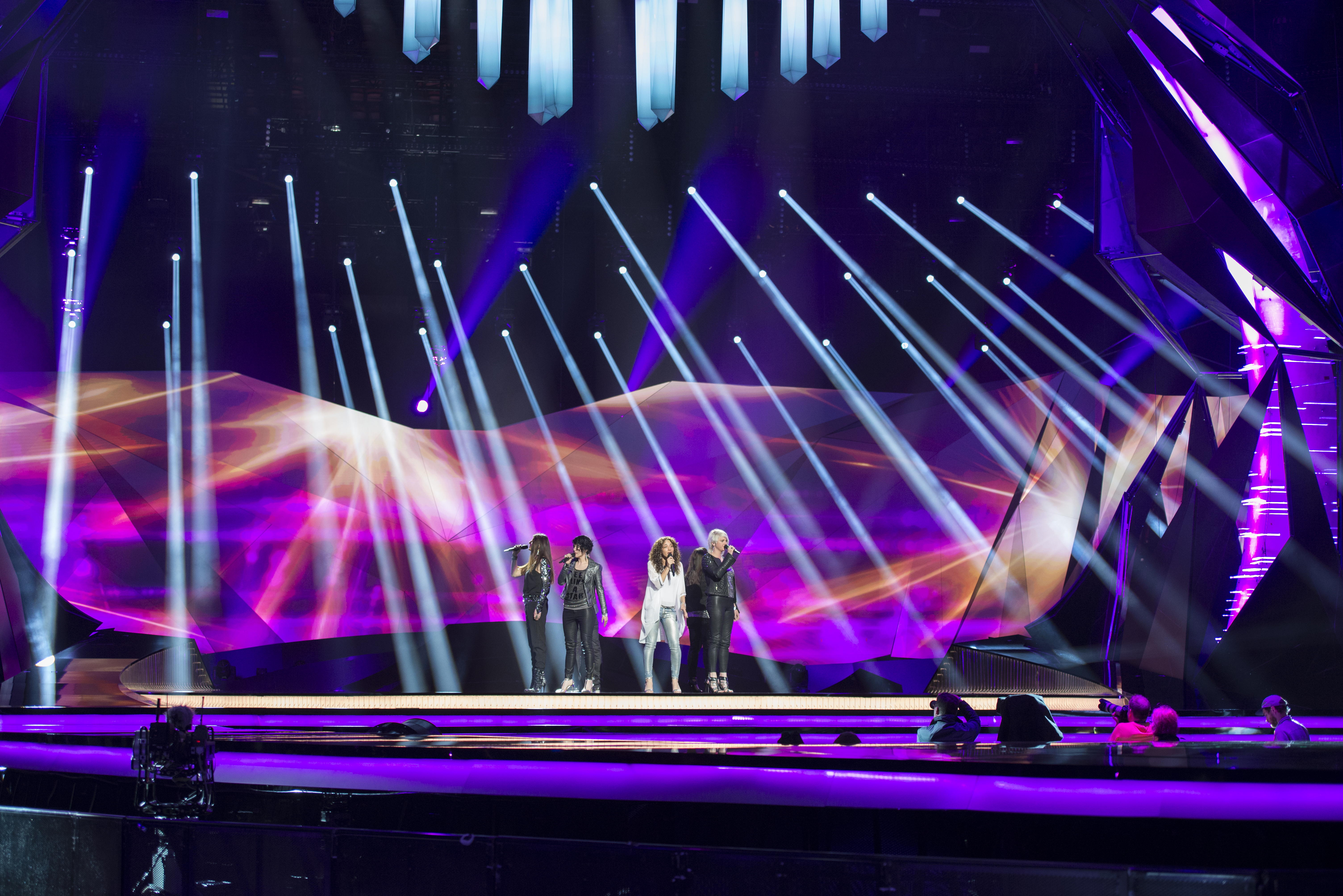 Natália Kelly representing Austria with the song "Shine" during the first dress rehearsal of the first semi final of the Eurovision Song Contest 2013 in Malmö. (Help translate this text)